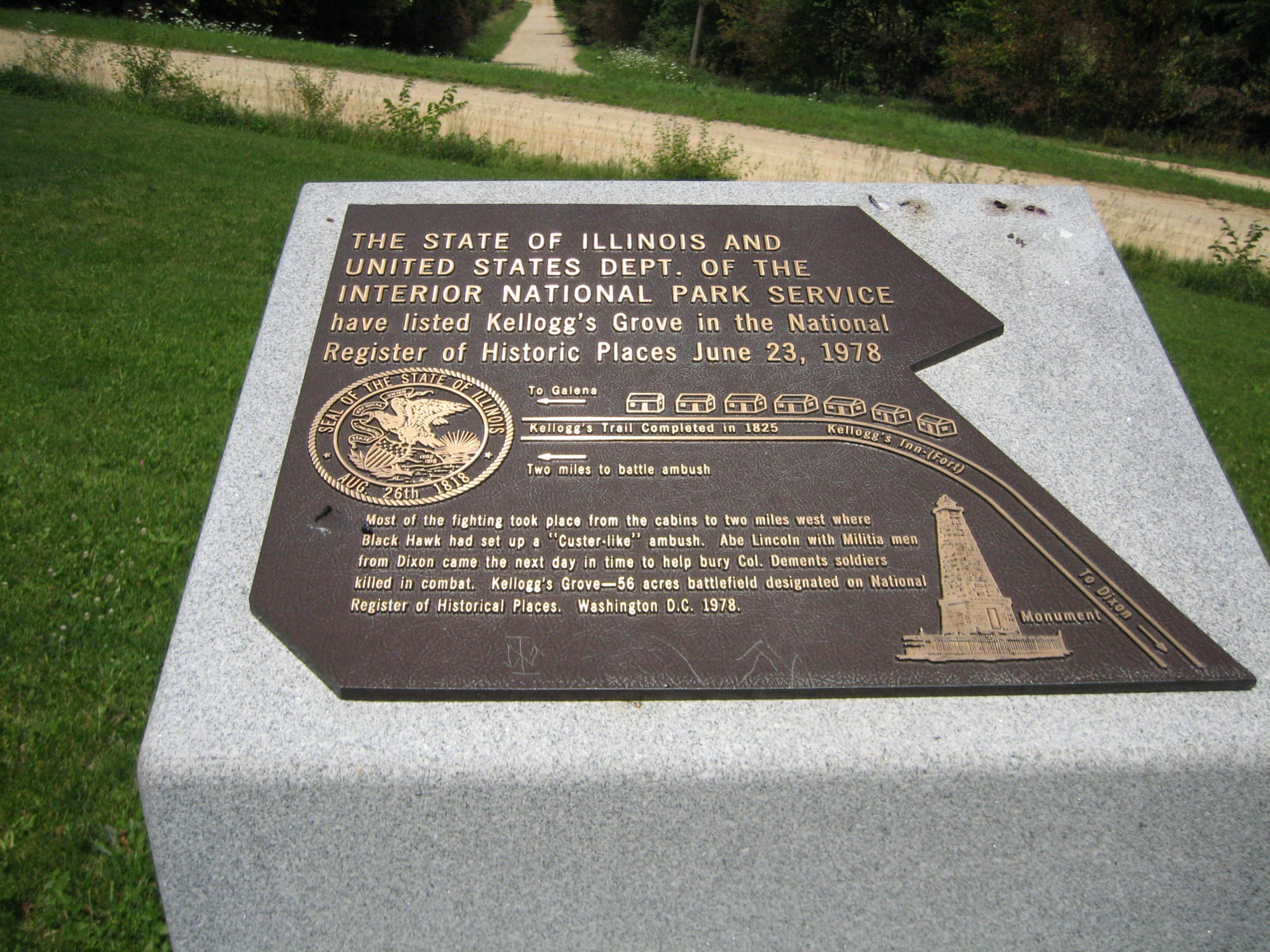 Kellogg's Grove, near Kent, Illinois, USA. Site of the Battle of Kellogg's Grove during the Black Hawk War. Site includes 56 acres and a monument and graves of those in the militia that died. U.S. National Register of Historic Places.